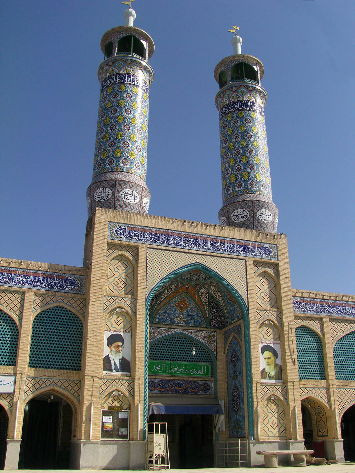 Azam mosque of Delijan is biddest mosque in the city.